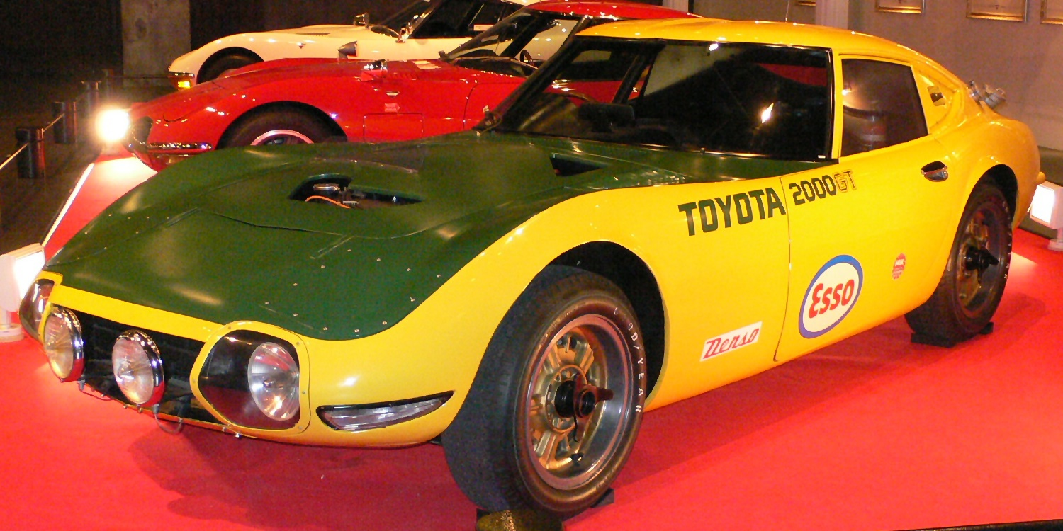 Toyota_2000GT(1966 Speed trial spec) photographed in MEGAWEB.